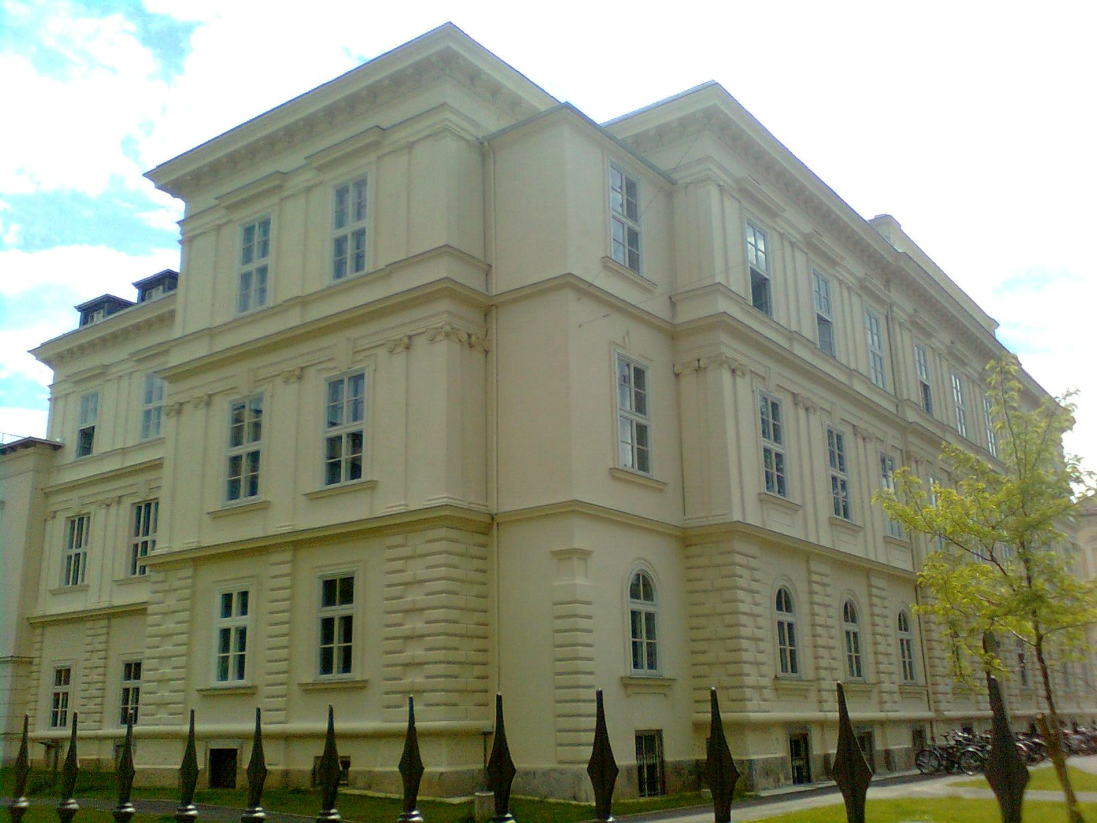 Former Anna-Children-Hospital in Graz